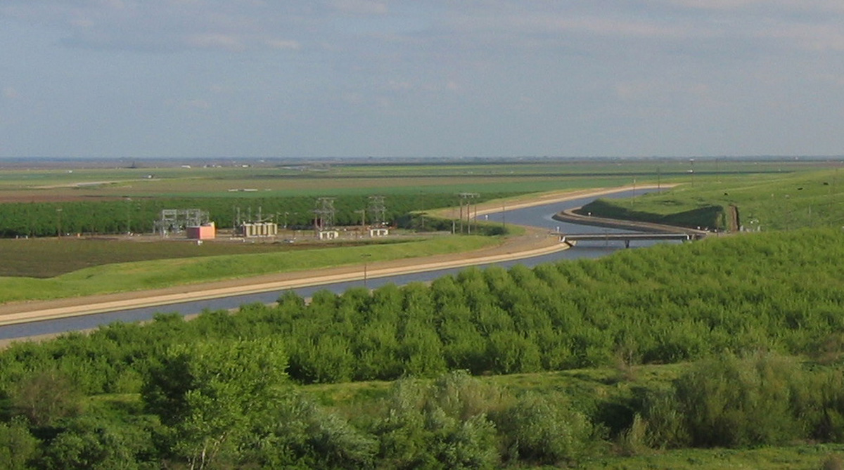 The California Aqueduct — as it passes through orchards near Interstate 5 in the western San Joaquin Valley, Central California. Photograph taken by Triddle